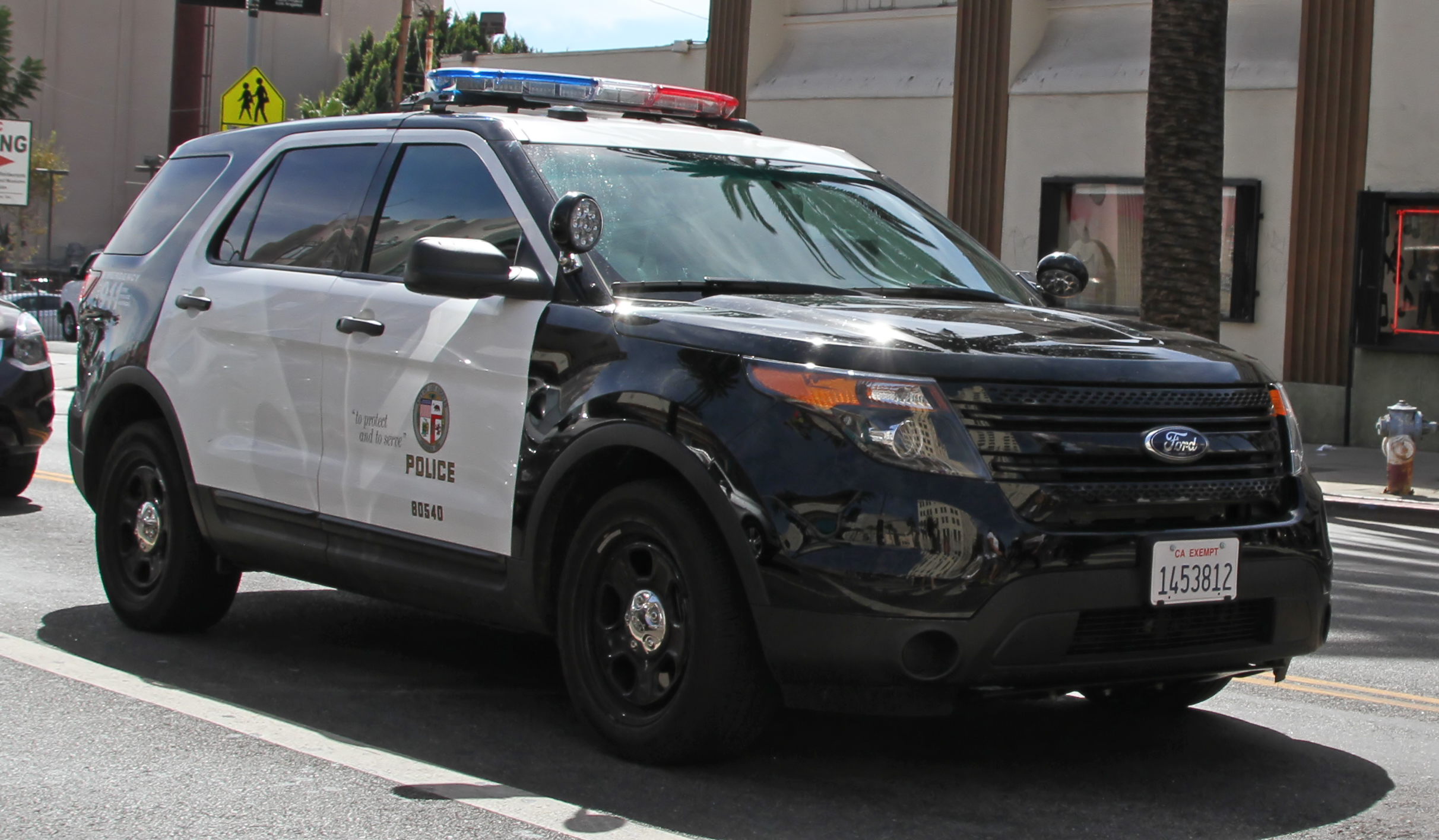 An LAPD Ford Explorer Police Utility Vehicle.